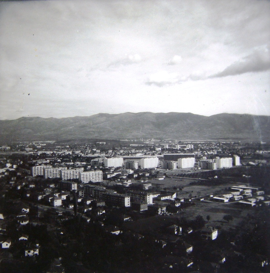 1963 Skopje earthquake: A View to Kisela Voda, 1964 This media file is produced by Wikipedian in Residence in Category:Wikipedian in Residence at DARM in 2016.